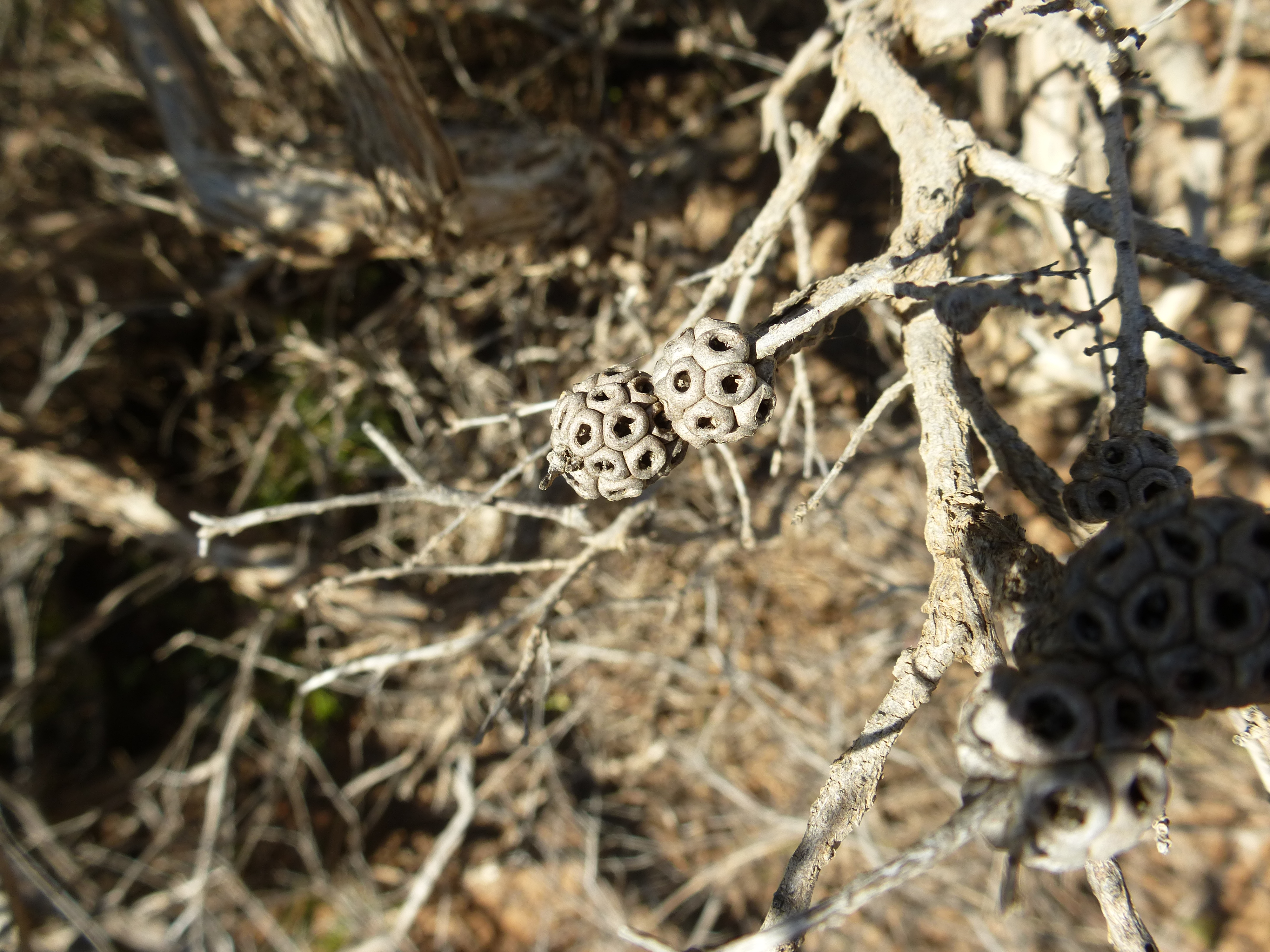 Melaleuca filifolia growing on White Peak Road near Geraldton